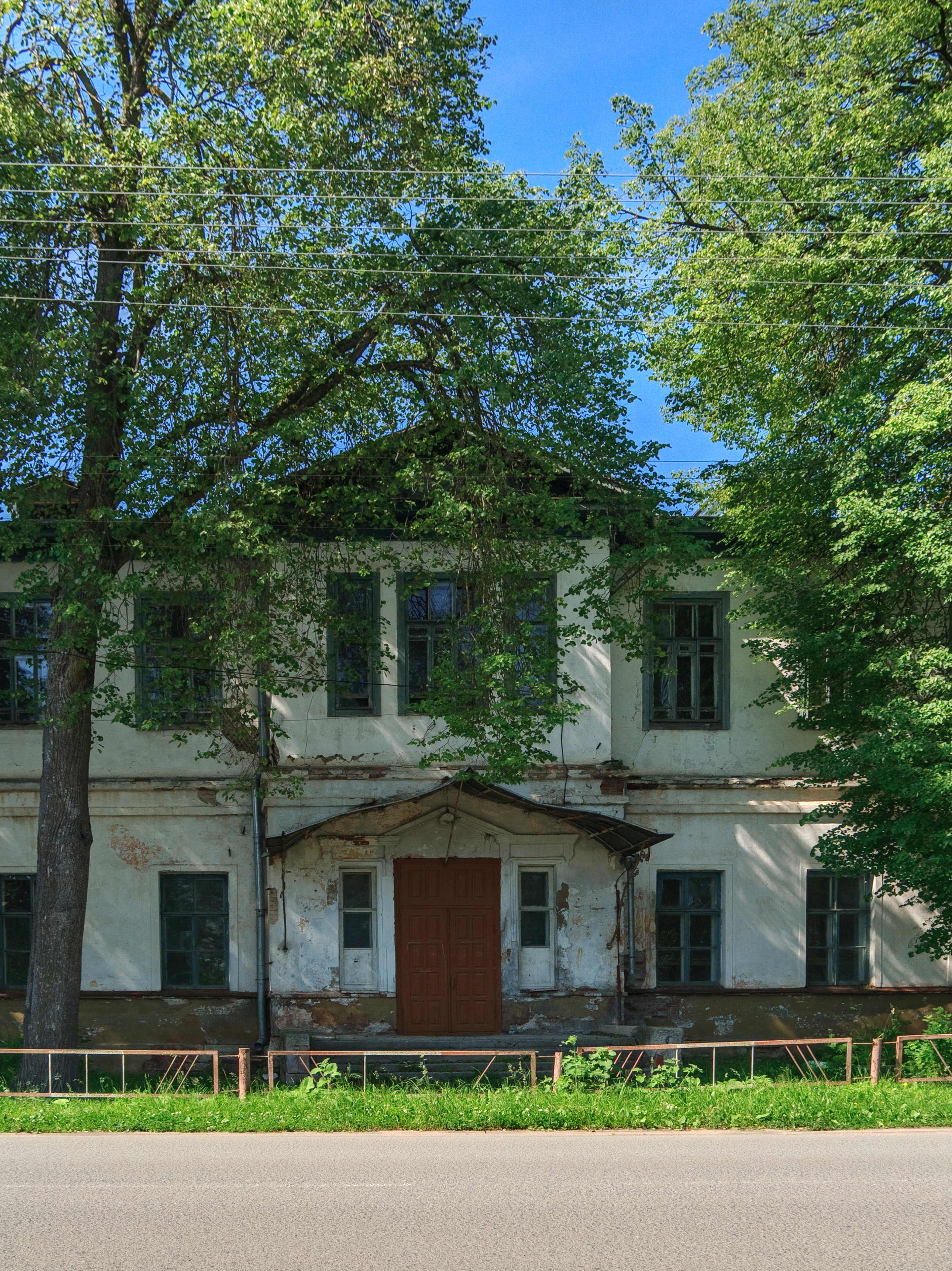 Oktyabrsky avenue 41, Kargopol, Arkhangelsk Oblast, Russia